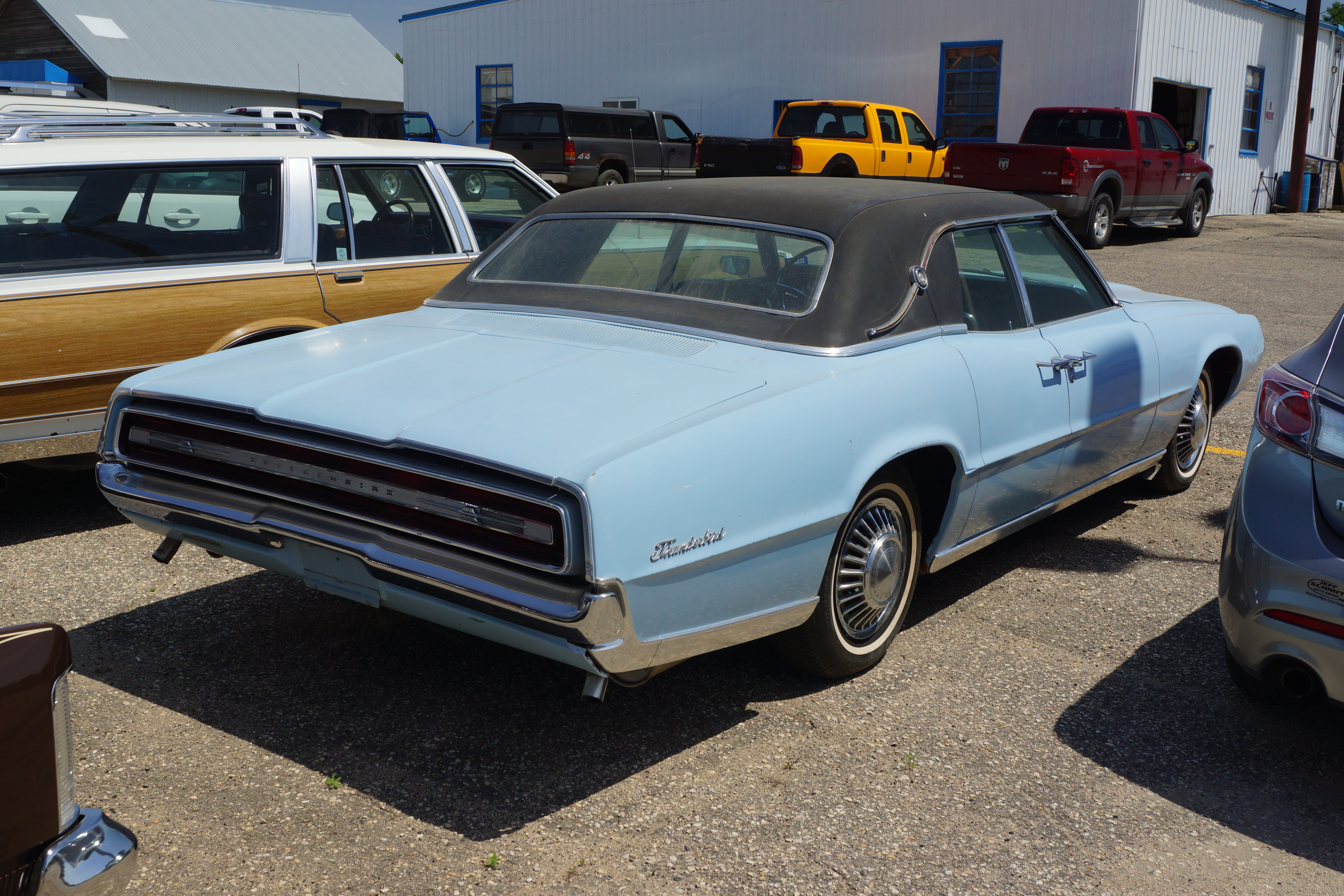 Click here for more car pictures at my Flickr site. Or here for my Car Crazy Tumblr site. Or on Twitter @DVS1mn.